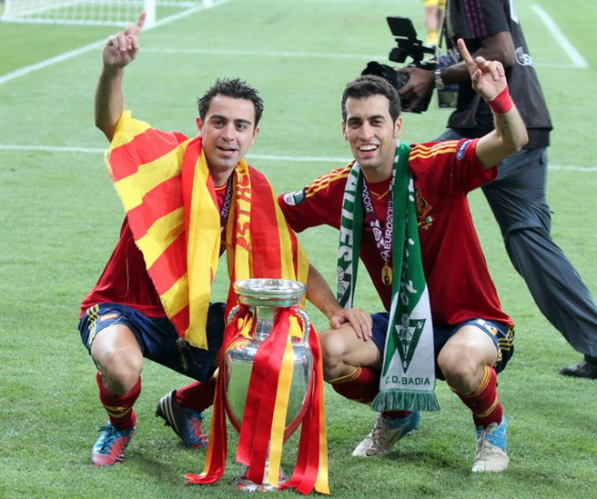 Xavi Hernández and Sergio Busquets with Euro 2012 trophy